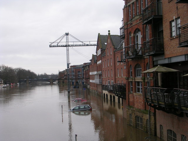 A flooded Queen's Staith - viewed from Ouse Bridge